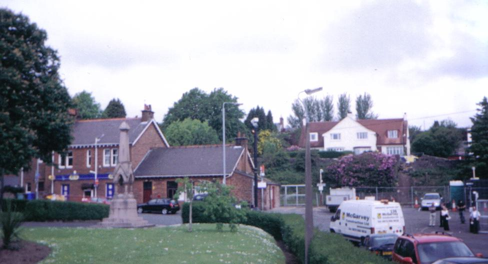 Maybole station, South Ayrshire from Greenside in 2005.